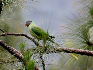 Slaty-headed Parakeet Psittacula himalayana perched in Pinus roxburghii. Originally uploaded to wiki commons by user:J.M.Garg. This image is cropped so that the bird can be see better in a small picture.